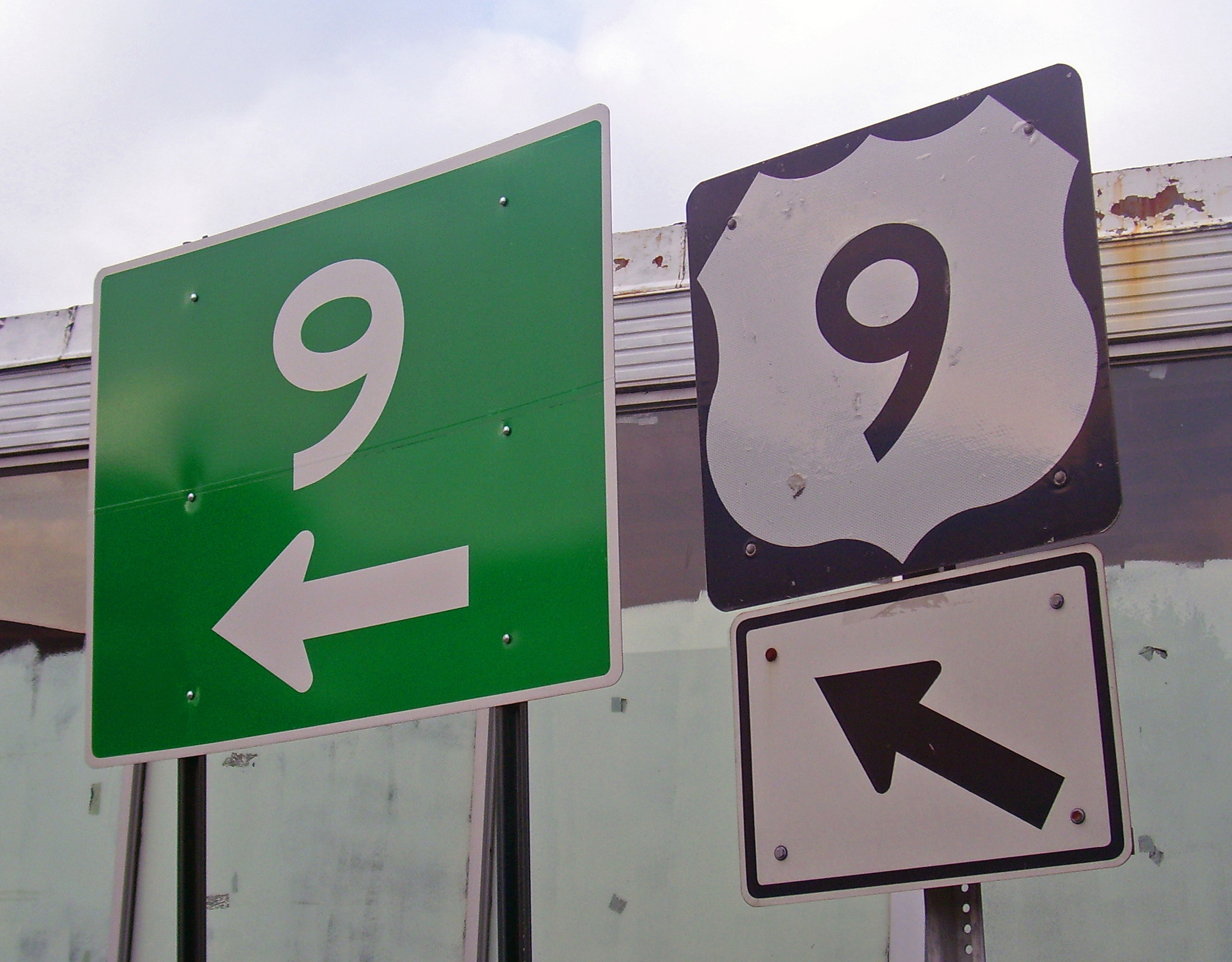 Extra signs indicating rerouting of US 9 in Sleepy Hollow, NY, USA, at junction with NY 448